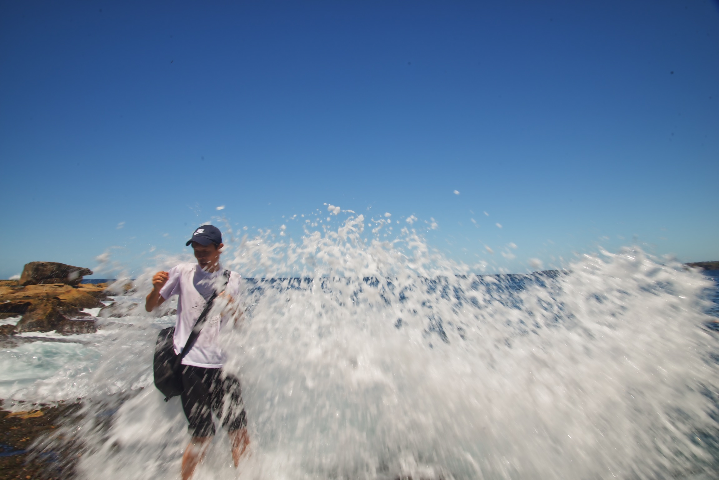 A rip current pouring over the people standing on rock shore at the northern end of Bondi beach